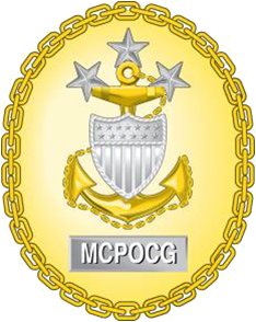 United States Coast Guard Master Chief Petty Officer of the Coast Guard insignia.